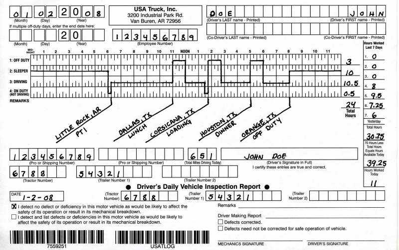 An example of a truck driver log book in the United States. "PTI" is short for "pre-trip inspection", as the driver is responsible for ensuring that the vehicle is fit to be driven (i.e., no flat tires, loose bolts, or broken parts). "On duty" time includes fueling, repairs, loading and unloading. "Off duty" time incudes meals and rest stops.